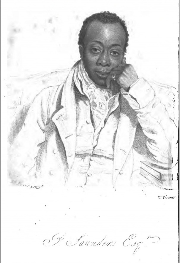 This is the portrait of Prince Saunders (1775–1839)